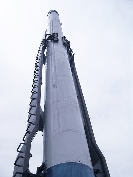 Omid [was Iran's first domestically made satellite Described as a data-processing satellite for research and telecommunications, Iran's state television reported that it was successfully launched on February 2, 2009